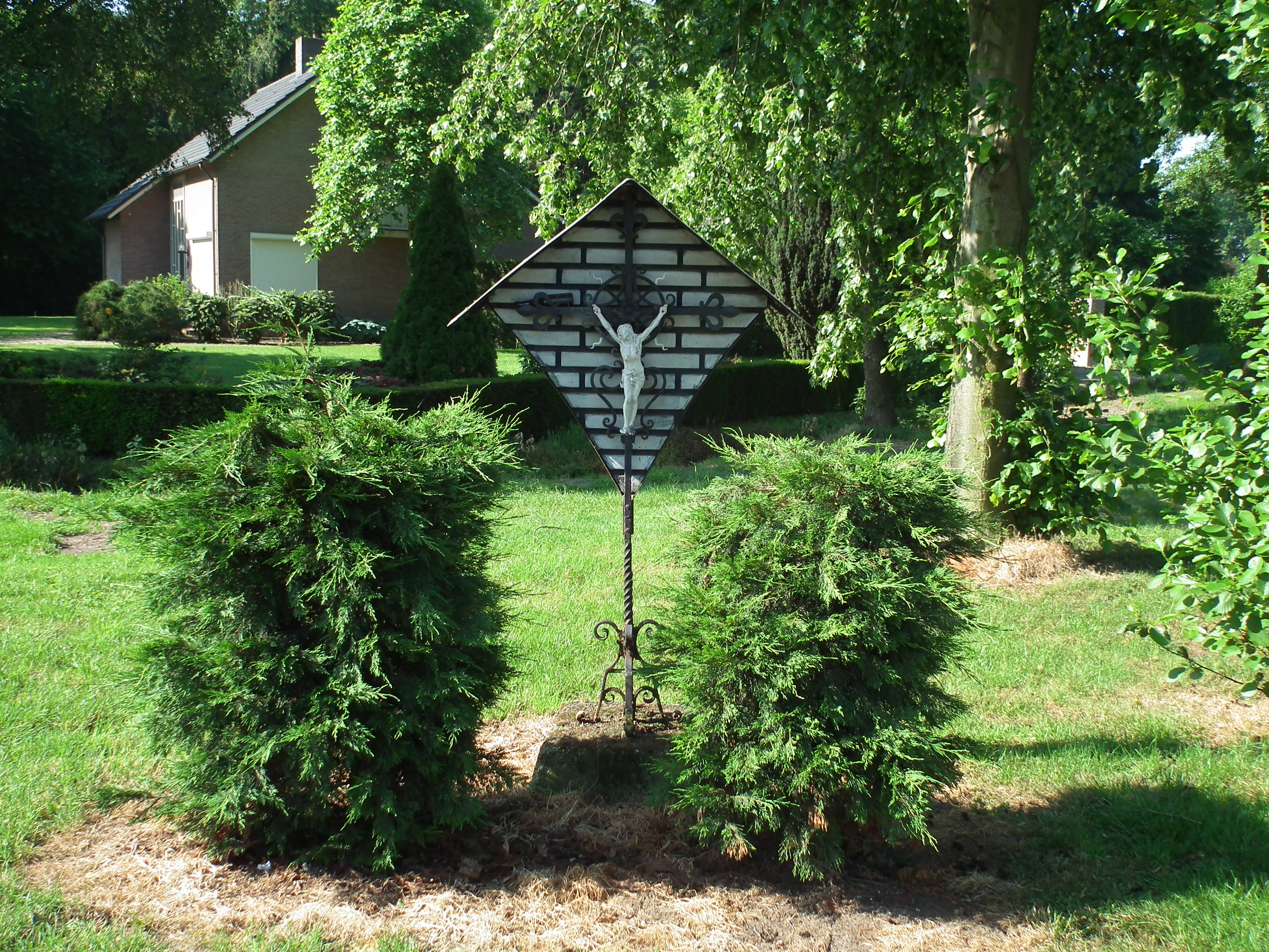 Wayside cross in the hamlet Roeven, near the village Nederweert